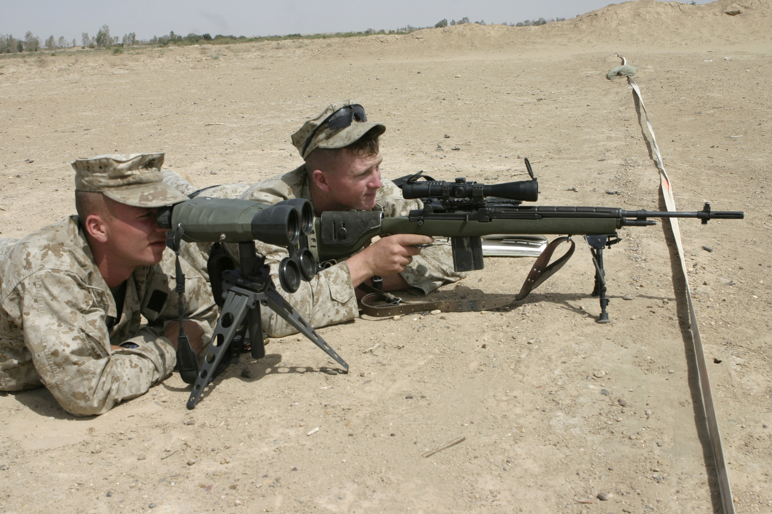 CAMP BAHARIA, Iraq - Lance Cpl. Brian M. Cloonan, designated marksman with 1st Platoon, 2nd Fleet Anti-Terrorism Security Team Company, Marine Corps Security Force Battalion, prepares to aim in on his target as Lance Cpl. William Black, also a designated marksman with 1st Platoon, 2nd FAST Company, observes downrange. Unit members practiced adjusting their weapons' sights and firing the rifles aboard 1st Battalion, 6th Marine Regiment's range here to maintain their proficiency while providing security for convoys here.